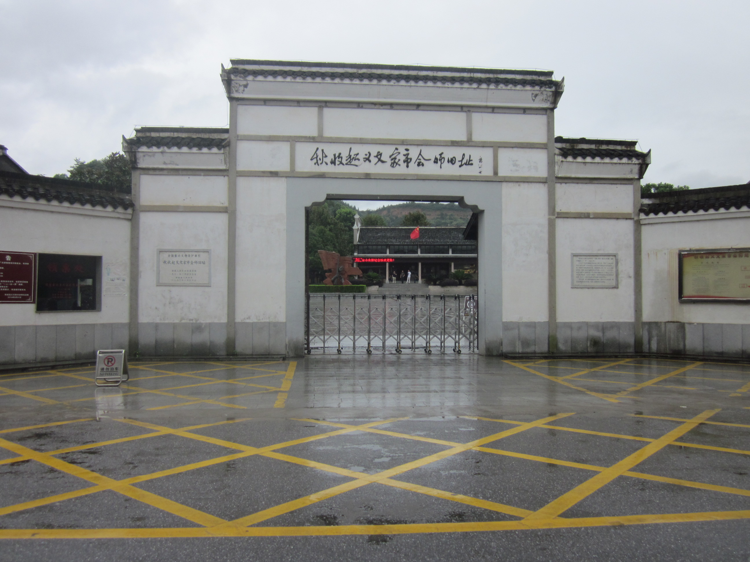 The Site of Joining Forces in Wenjiashi of Autumn Harvest Uprising (Chinese: 秋收起义文家市会师旧址) , located in Liuyang City, Hunan Province, is one of the famous tourist attractions in Changsha.